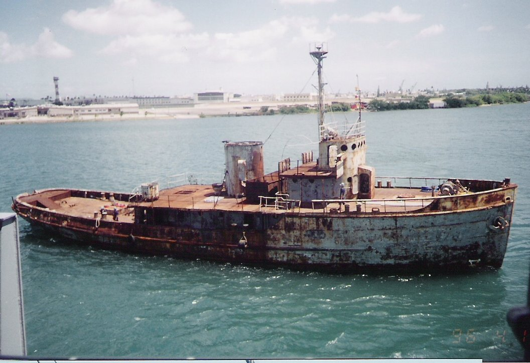 The salvage training hulk ex-Tunica a former US Navy fleet tug as seen in Pearl Harbor, Hawaii, from USS Salvor during salvage training exercises in April 1996.